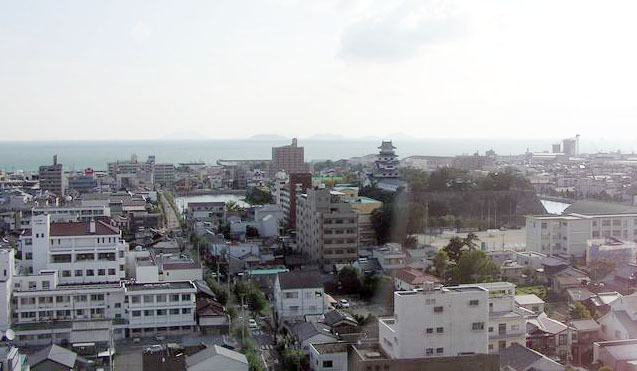 Source: self, OhMyDeer Photographed by: OhMyDeer A view over the city of Imabari and its castle. Cropped version